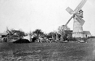 View of the towermill (windmill) at Foulsham, County Norfolk, England, circa 1911. The mill was built of red brick and was five stories high. It burned in 1912, and the remains of the mill were later incorporated into a private house.